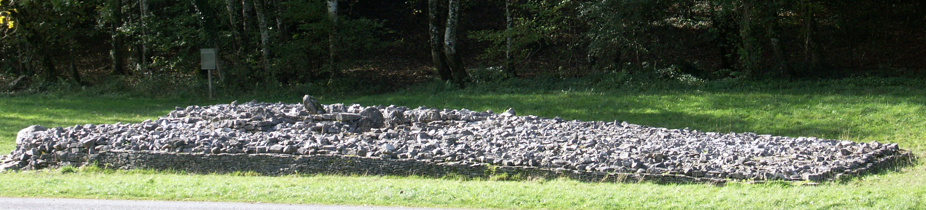 Parc Cwm long cairn, Gower, elevated view